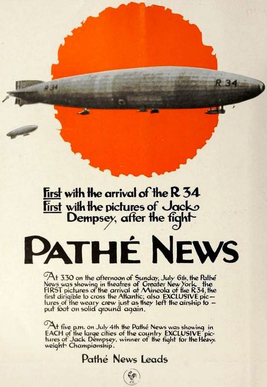 Ad for newsreel service Pathé News with the British airship R34, page 980 of the August 2, 1919 Motion Picture News.